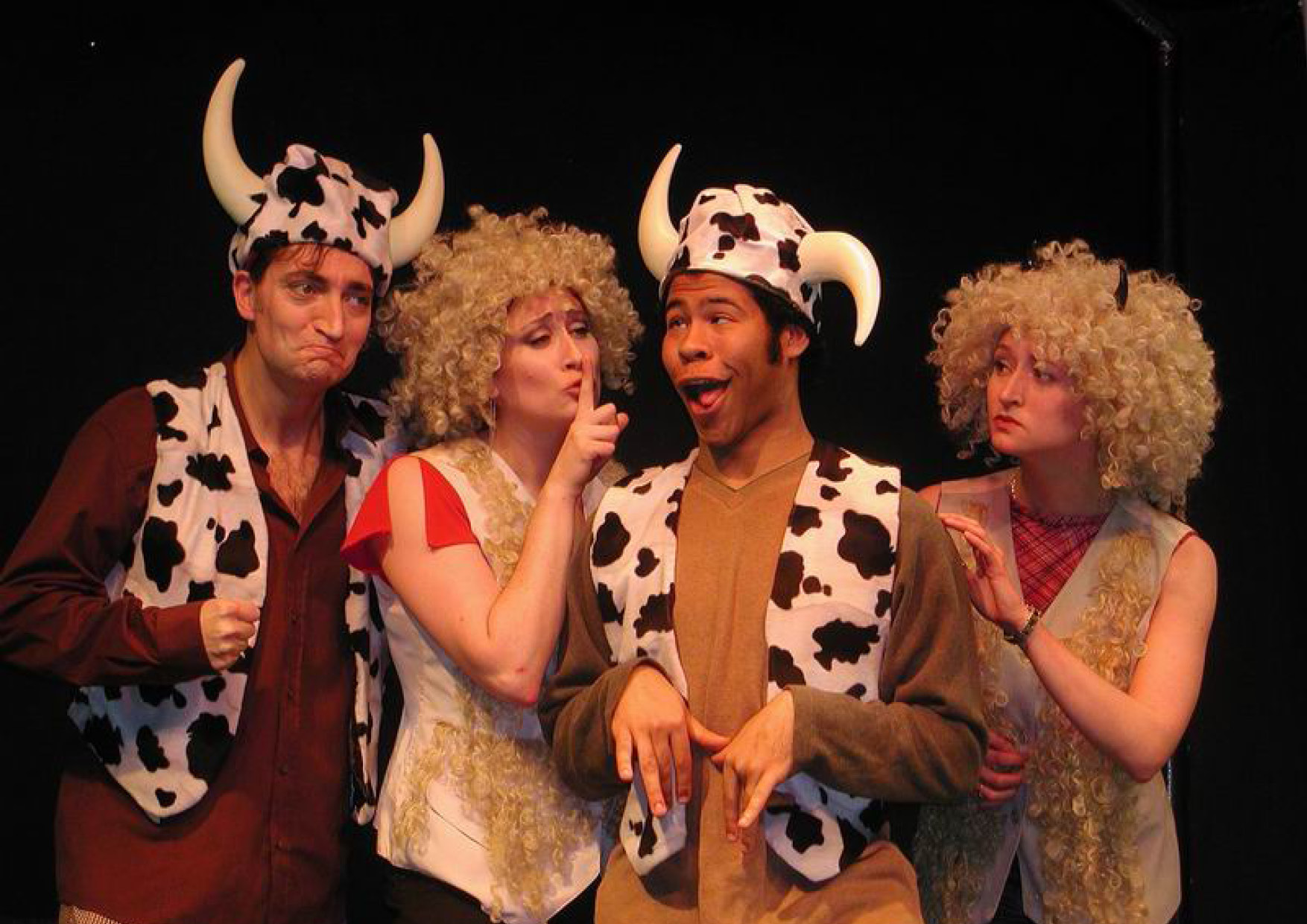 Pep Rosenfeld, Nicole Parker, Jordan Peele and Lauren Dowden in Boom Chicago's Europe We've Created a Monster in 2001